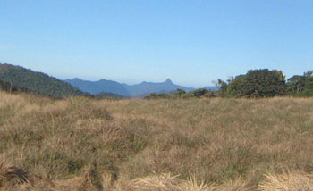 Horton Plains, Sri Lanka